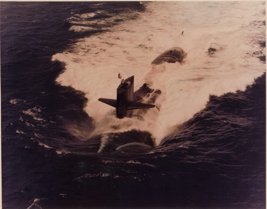 United States Navy attack submarine off Norfolk, Virginia, probably during sea trials